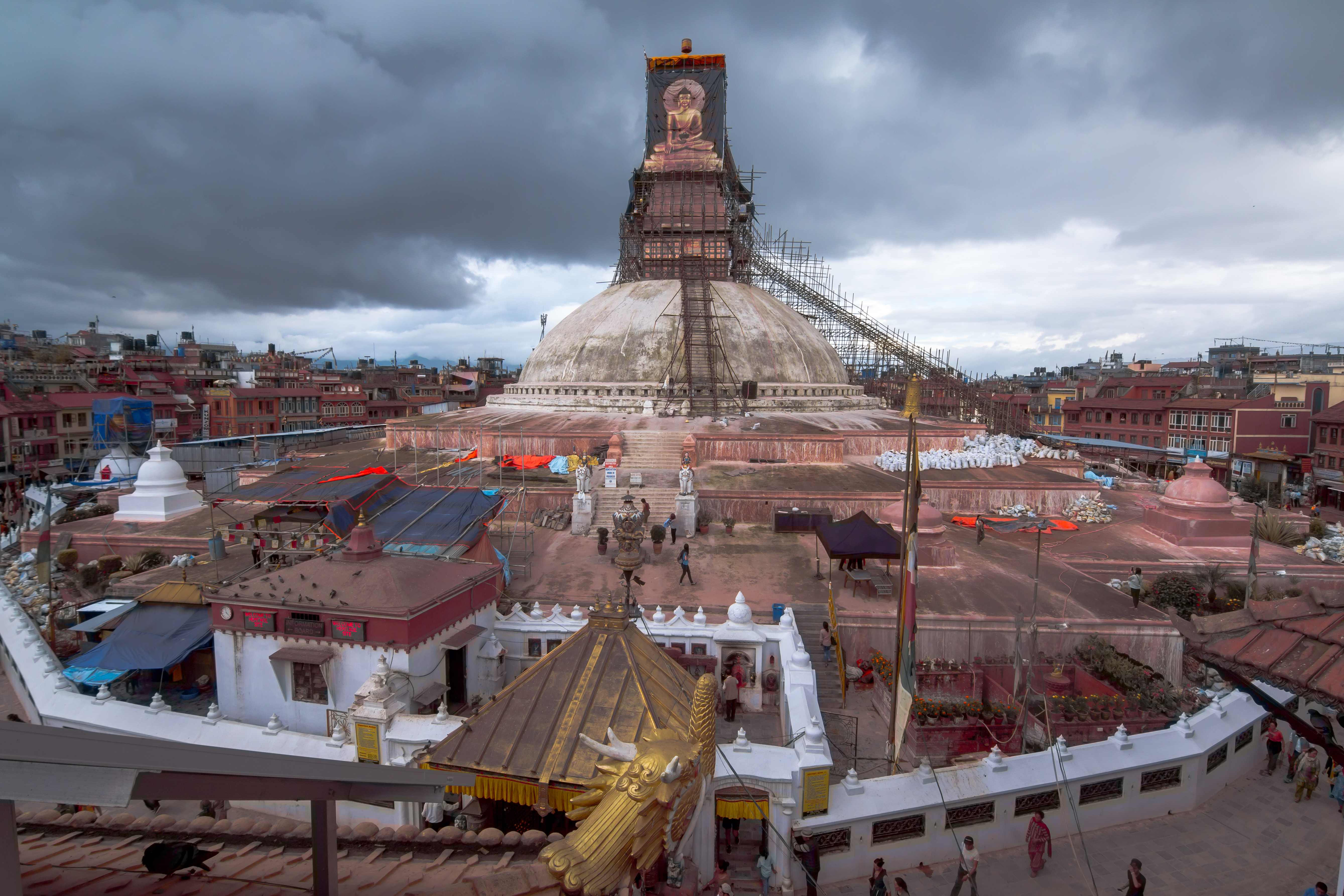 Boudhanath temple after earthquake in 2015 of 7.8 magnitude in the process of rebuilding.